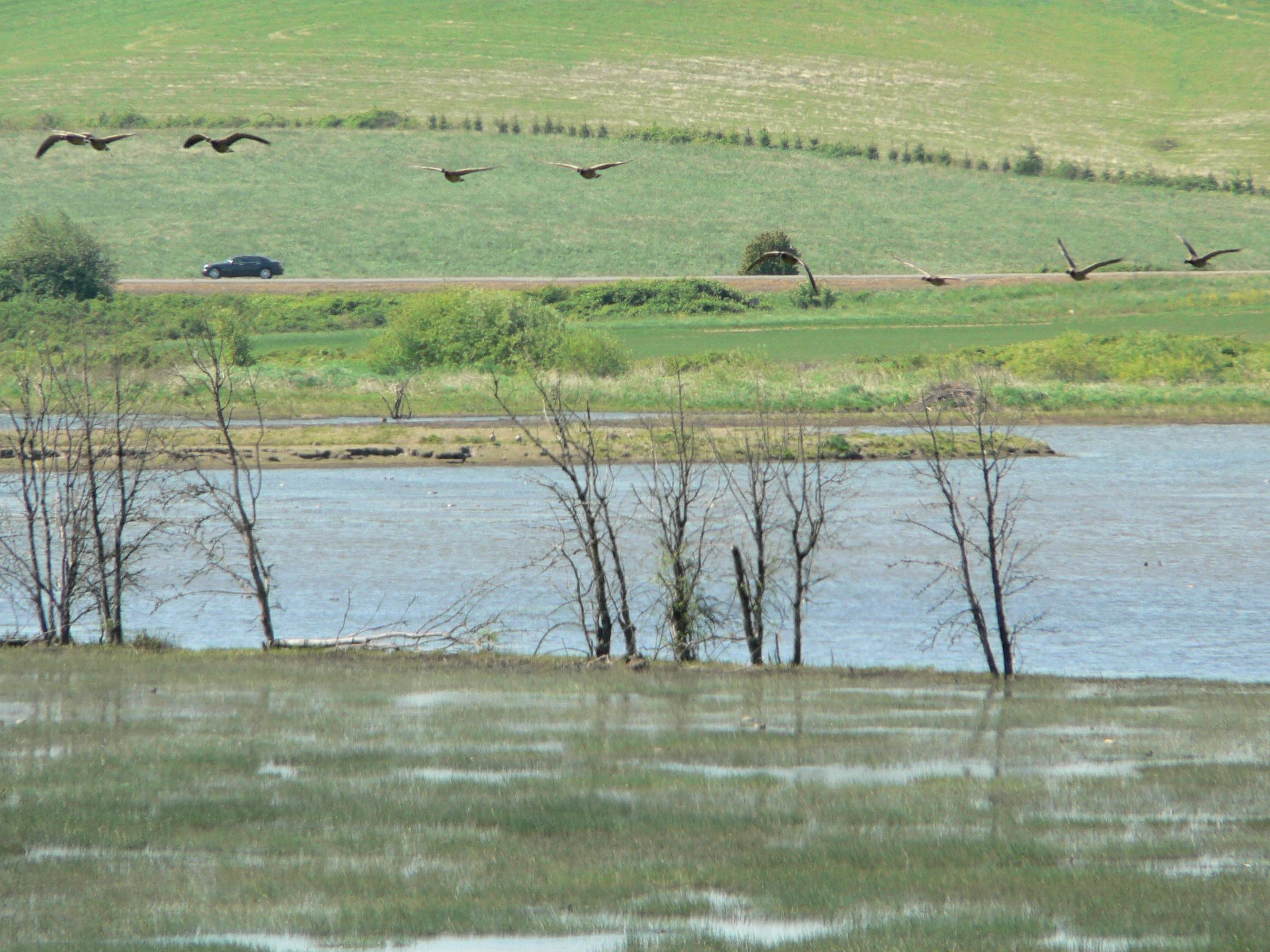 Canada Geese flying over Cackler Marsh, Oregon Route 22 beyond